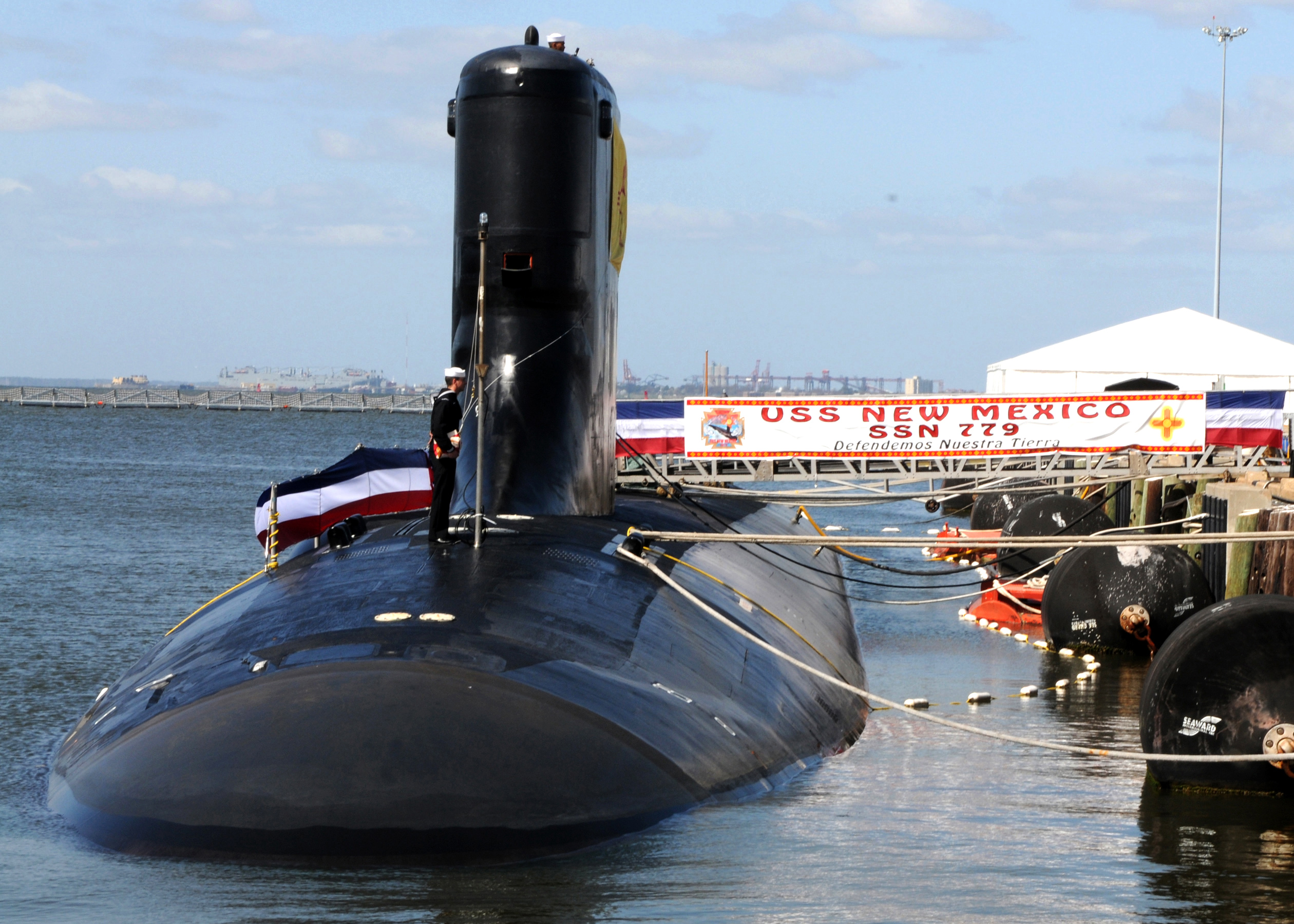 100327-N-3154P-044 NORFOLK (Mar. 27, 2010) The Virginia-class nuclear attack submarine USS New Mexico (SSN 779) moored pierside during the ship's commissioning ceremony, held aboard Naval Station Norfolk Mar. 27. New Mexico is the sixth Virginia-class submarine to be commissioned and will be homeported in Groton, Ct.